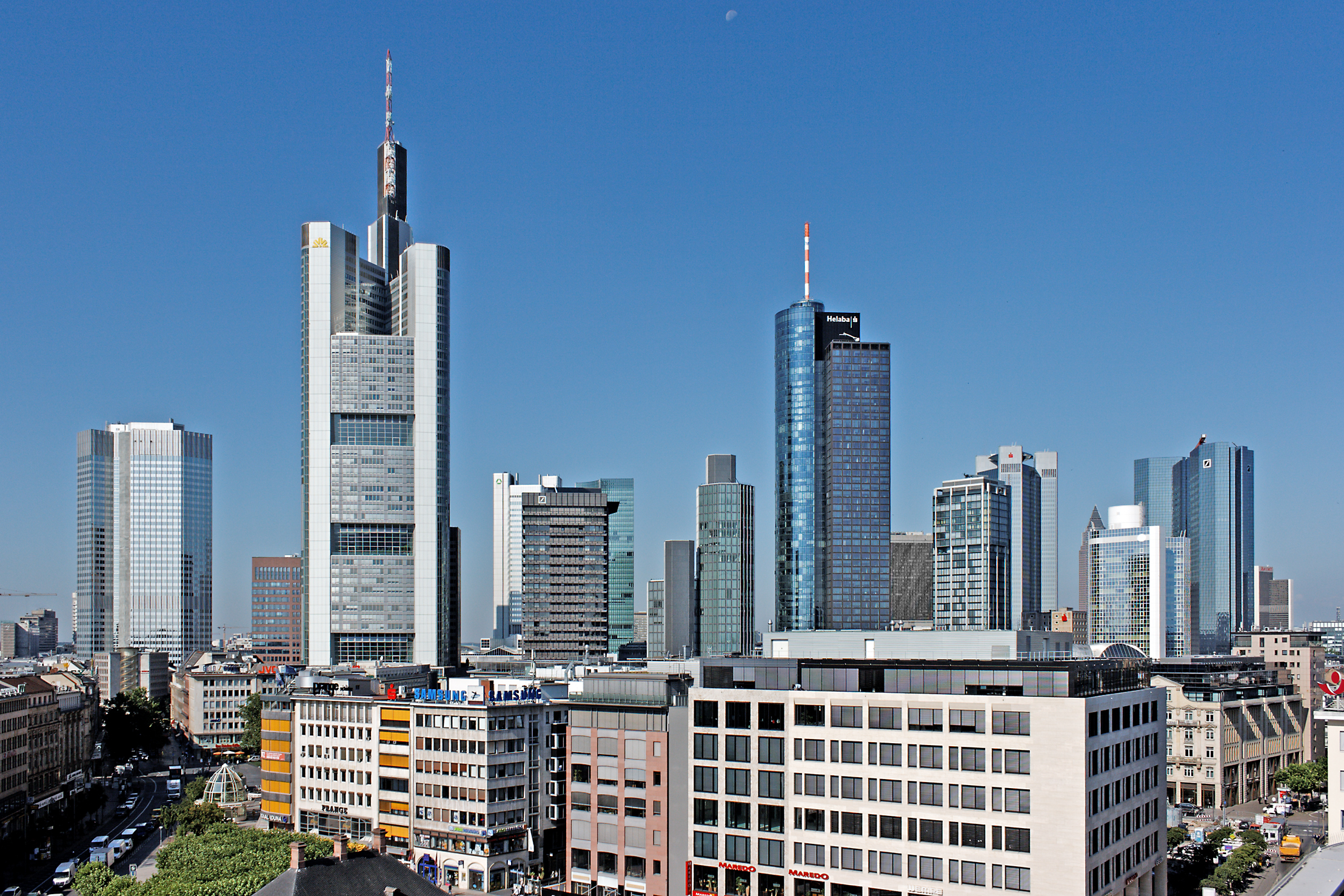 The financial district of Frankfurt am Main, Germany